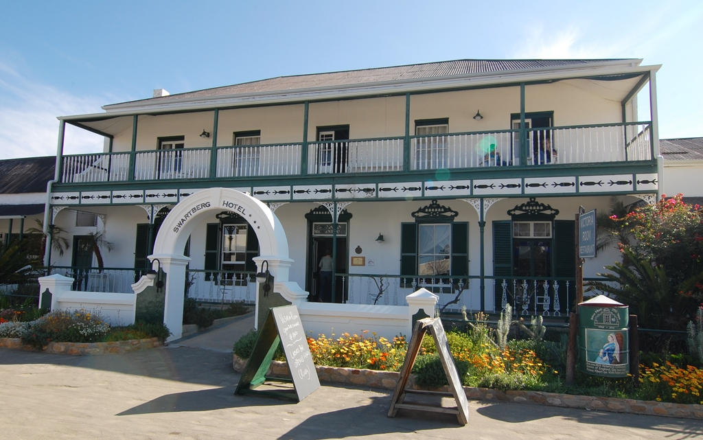 Erf 193, Swartberg Hotel, Church Street, Prince Albert This media shows a South African Protected Site with SAHRA file reference 9/2/076/0006.